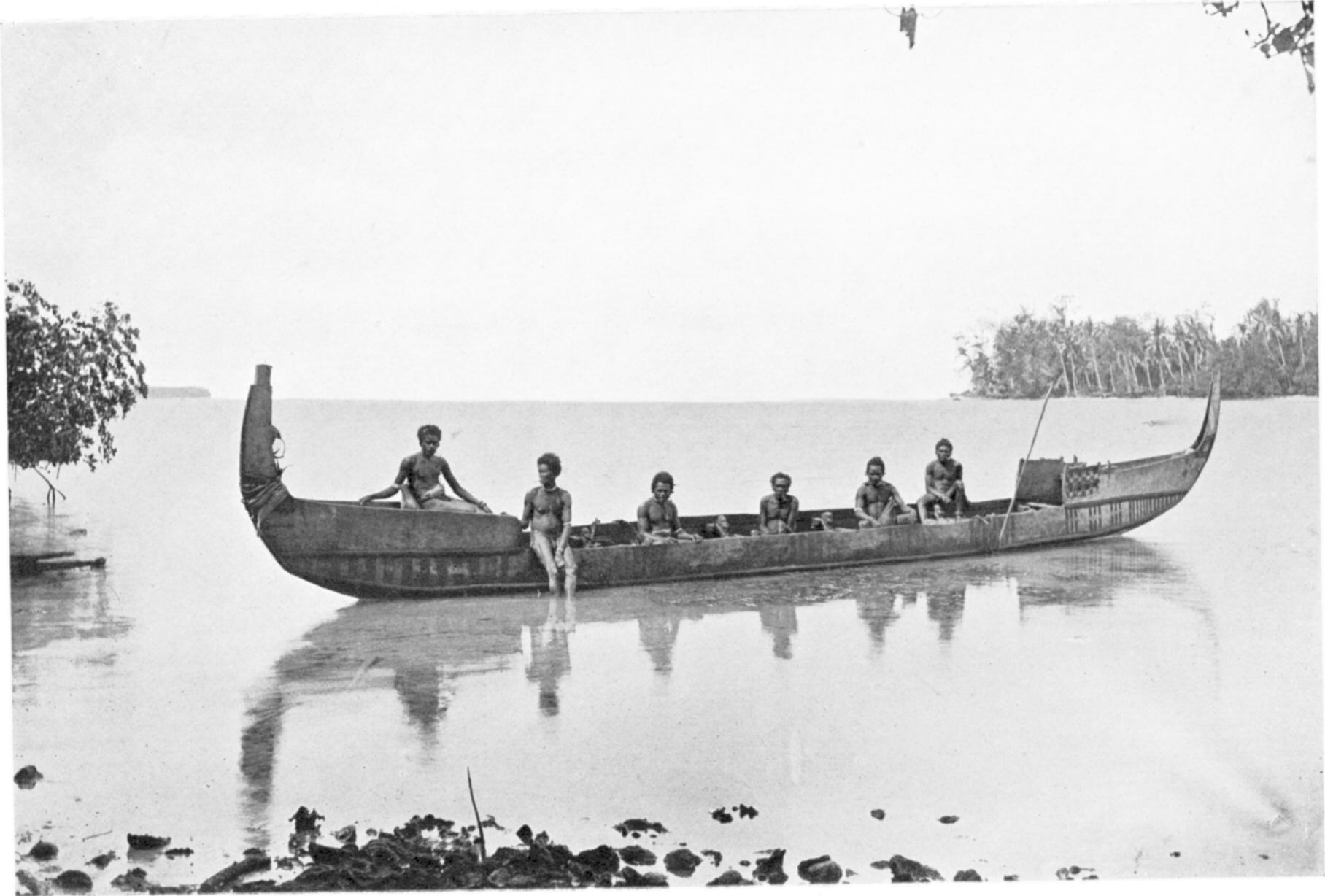 Native canoe, Marau Sound, Solomon Islands.